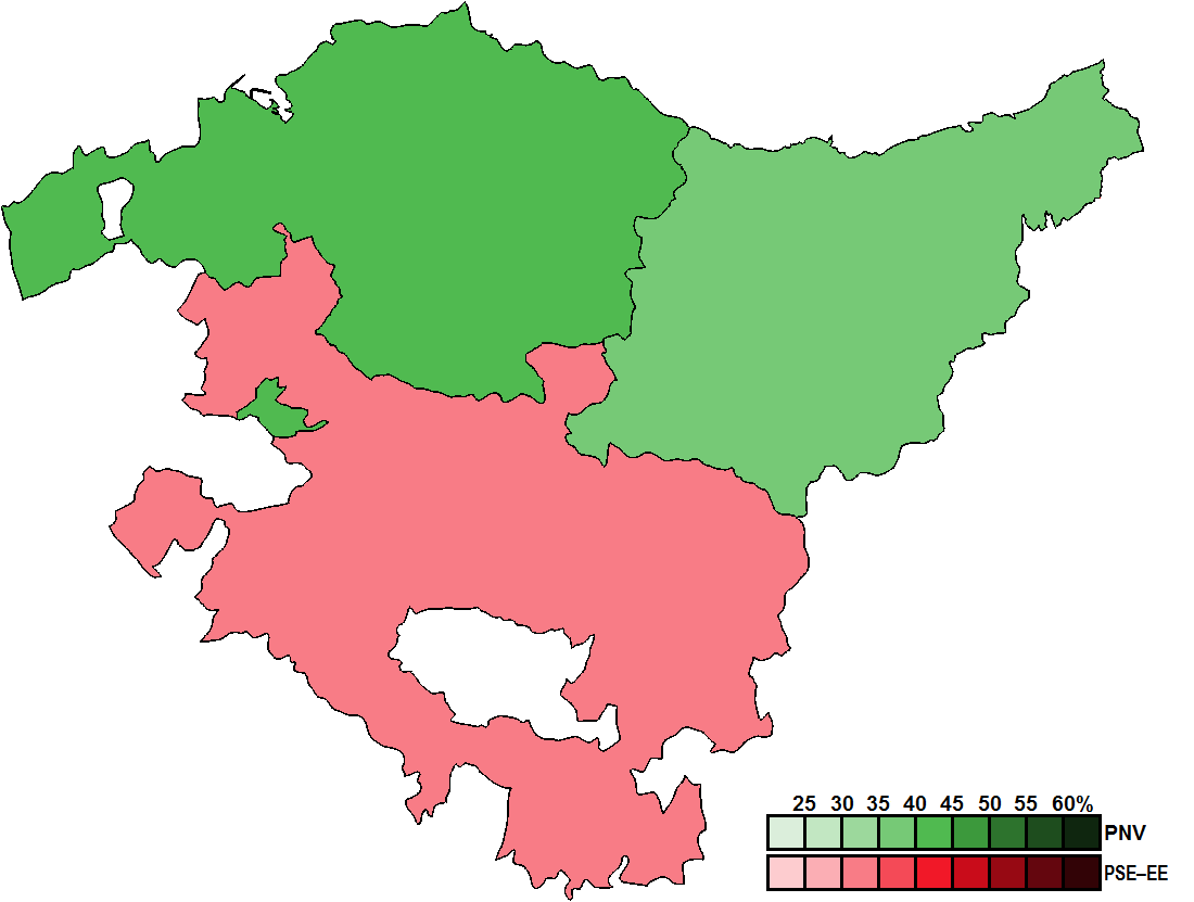 Provincial results for the 2009 Basque regional election.